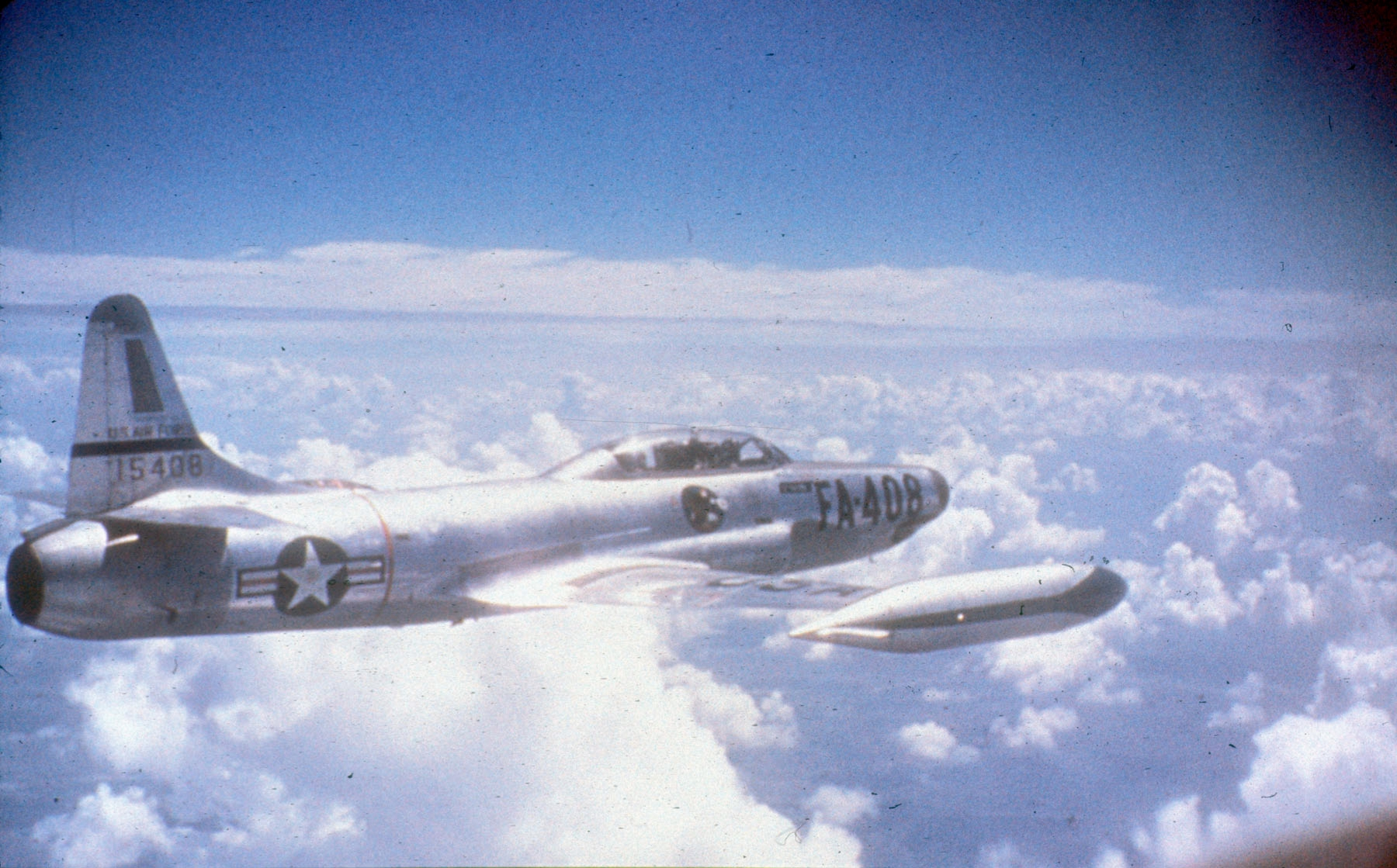 A U.S. Air Force Lockheed F-94B-5-LO Starfire (s/n 51-5408) from the 319th Fighter-Interceptor Squadron over Korea. The 319th FIS was deployed from Moses Lake AFB, Washington (USA), to Suwon AB, South Korea, in February and early March 1952. Until November 1952, the U.S. Fifth Air Force restricted the use of the F-94 to local air defense in order to prevent the possible compromise of its airborne intercept radar equipment in a loss over enemy-held territory. From November on the 319th maintained fighter screens between the Yalu and Chongchon Rivers, to protect B-29 Superfortress bombers. Incidentally, the F94 pictured (s/n 51-5408) and it's crew were credited with the first Mig kill using nightscope equipment. Piloted by Capt. John R. Phillips and R/O 1st Lt. Billy J. Atto, the event took place May 10th, 1953. The 'kill' was made over Pukchin, North Korea.